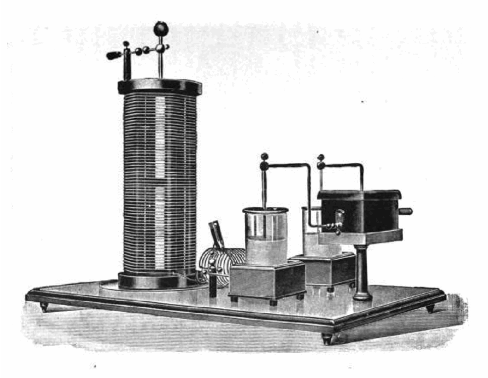 Woodcut of an early Oudin coil, a high voltage resonant transformer similar to a Tesla coil, invented by French physician Paul Marie Oudin around 1899 for use in medical electrotherapy. Components from the right: induction coil (black box), 2 Leyden jars, adjustable primary coil (small horizontal coil), resonator or secondary coil (vertical coil), and spark gap (on top of coil). In this early type the secondary coil was not magnetically coupled to the primary coil, just connected to a tap on the primary. The tap on the primary was adjusted until the primary circuit resonated at the same frequency as the secondary. In use, a wire from the high voltage terminal on the top of the secondary went to an electrode on a long insulated handle, which the doctor held to apply the high voltage streamer discharge to the patient's body. Caption read: "Isenthal-Oudin Resonator". Alterations to image: Rotated image 90° CW, cropped out caption, converted to 32 color PNG.